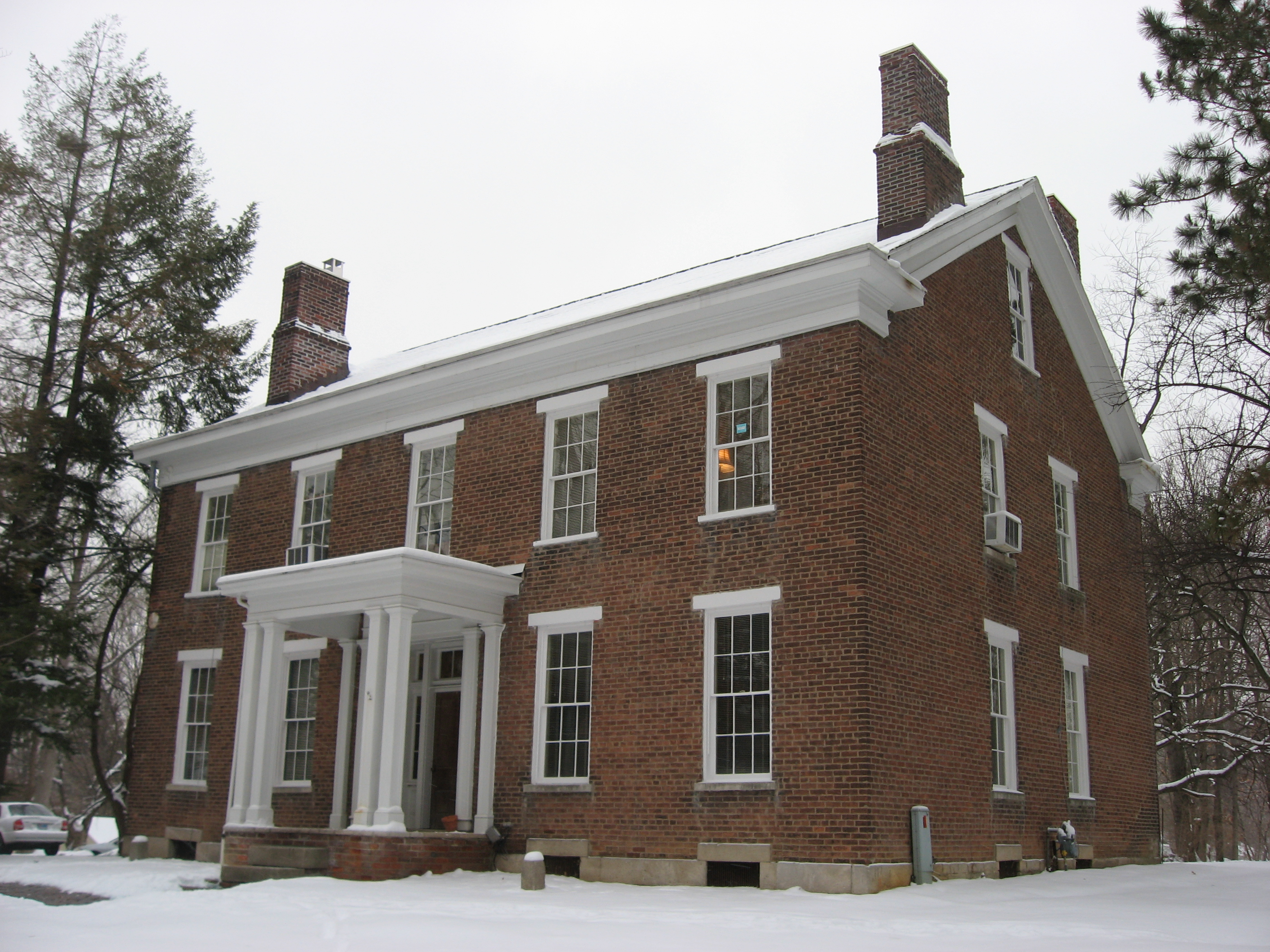 Front and eastern side of the Millen House, located at 112 N. Bryan Avenue on the campus of Indiana University in Bloomington, Indiana, United States. Built circa 1845, it is listed on the National Register of Historic Places.